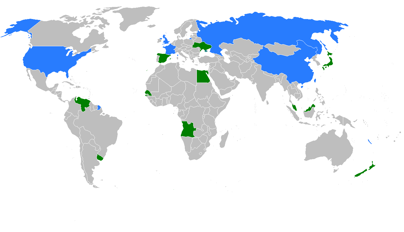 Map of Membership of the UN Security Council in 2016